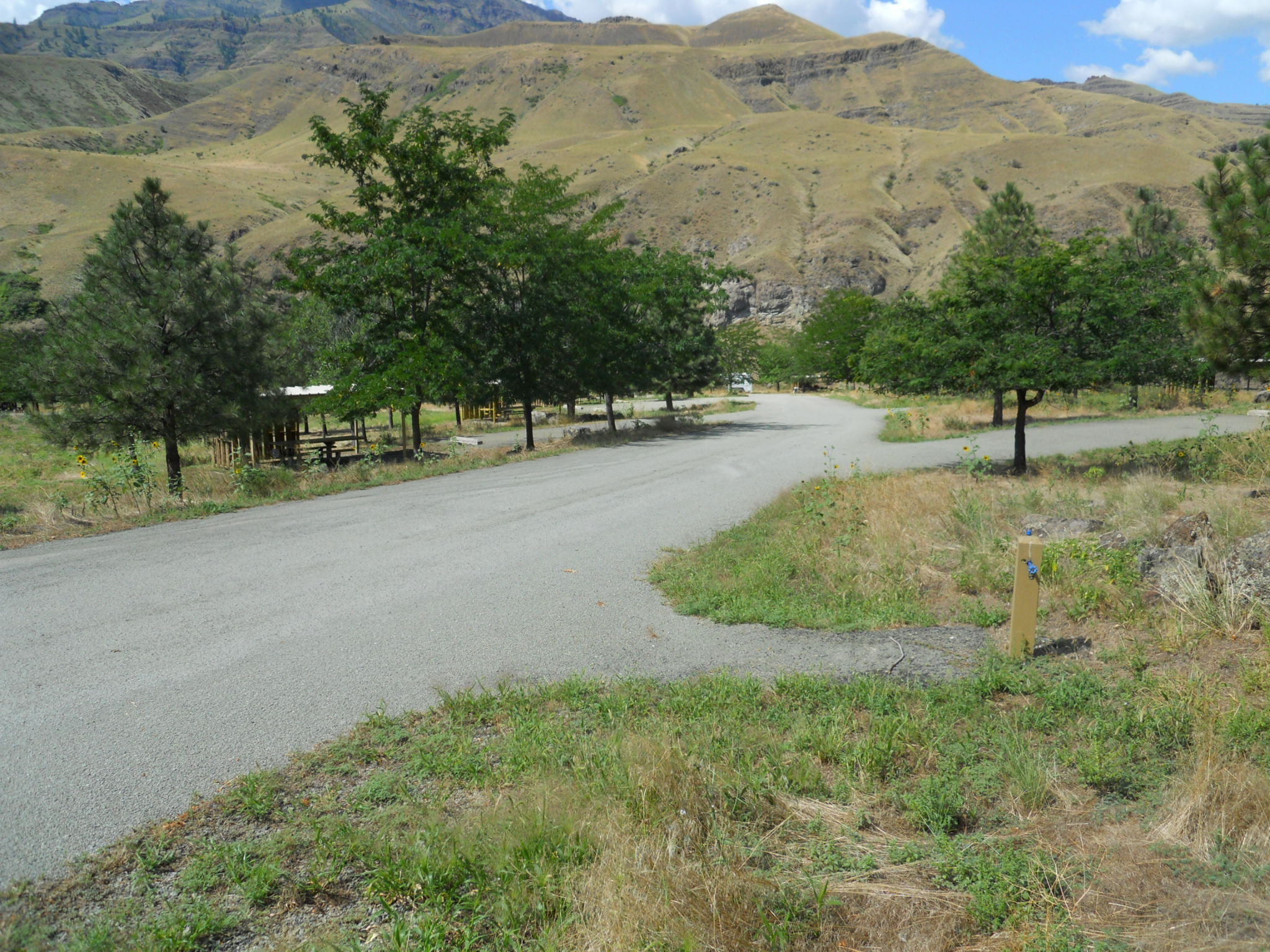 U.S. Forest Service Pittsburg Landing campground along the Snake River in Idaho.